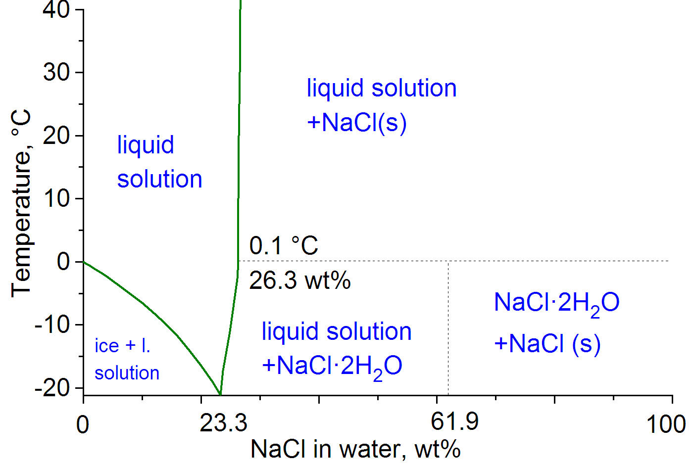 water-NaCl phase diagram. Lide, CRC Handbook of Chemistry and Physics, 86 ed (2005-2006), CRC pages 8-71, 8-116